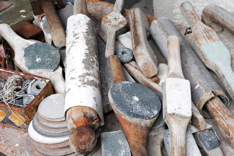 Barbara Hepworth's tools left as they were in her workshop. Colour photo.